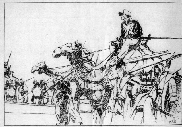 Presley O'Bannon on the way to Derne, 1805, ink drawing by Arman Manookian, Honolulu Academy of Arts